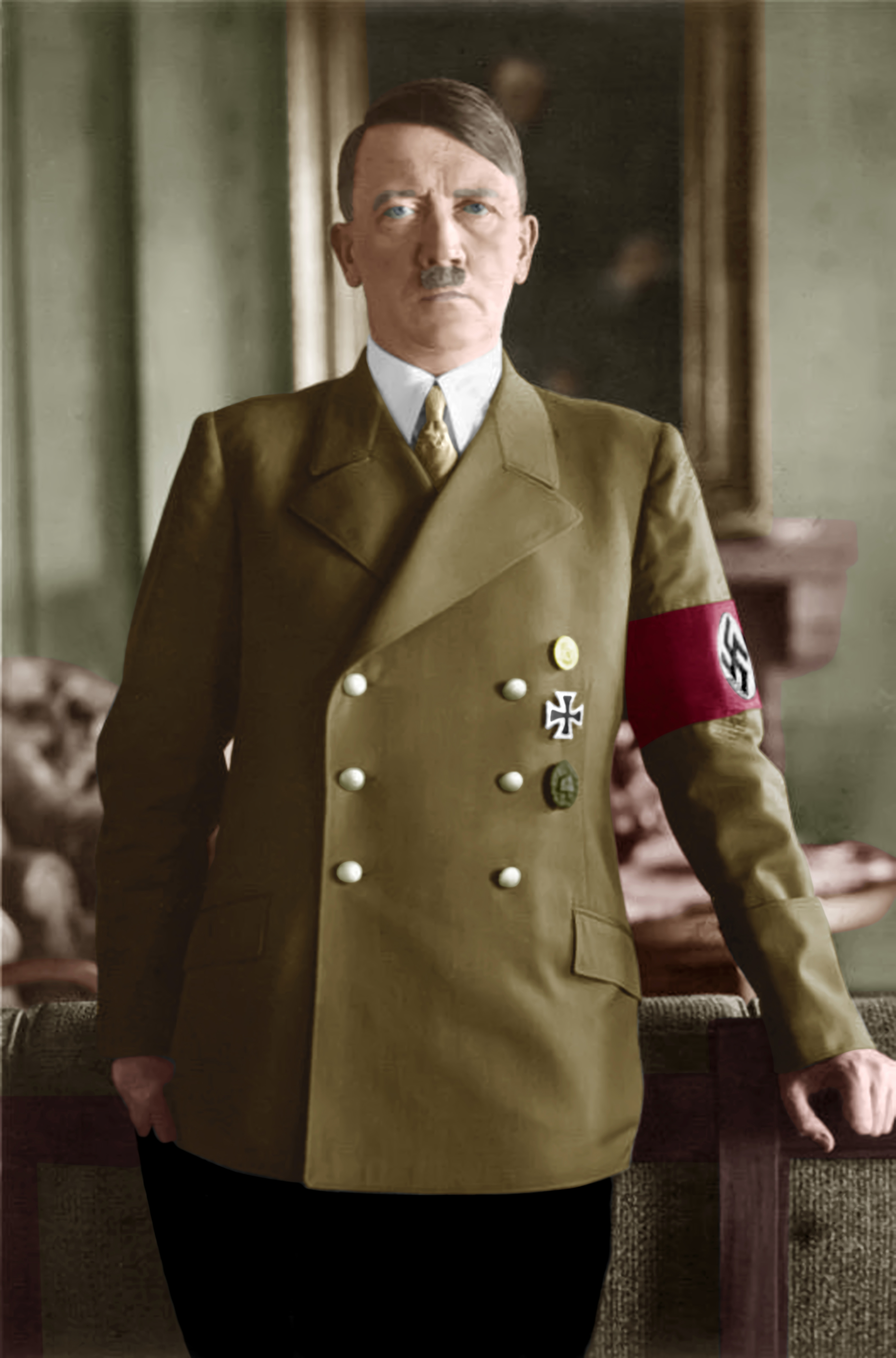 Colorized photo of Adolf Hitler.